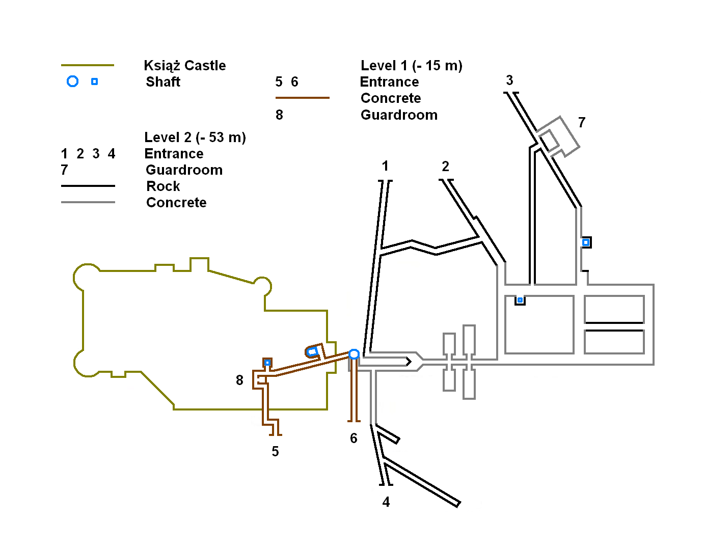 Diagram of the underground complex below Książ Castle, a part of the project Riese.